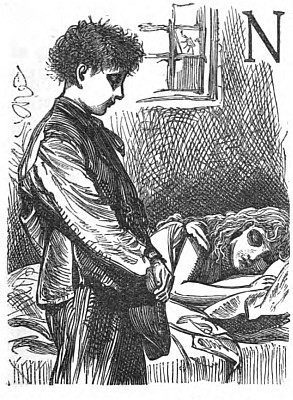 Illustration by Harry Tuck, from an early hardback edition of 'Her Benny, by Silas K. Hocking, published by Frederick Warne and Co., in 1879.